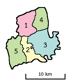 Subdistricts of Thung Khao Luang